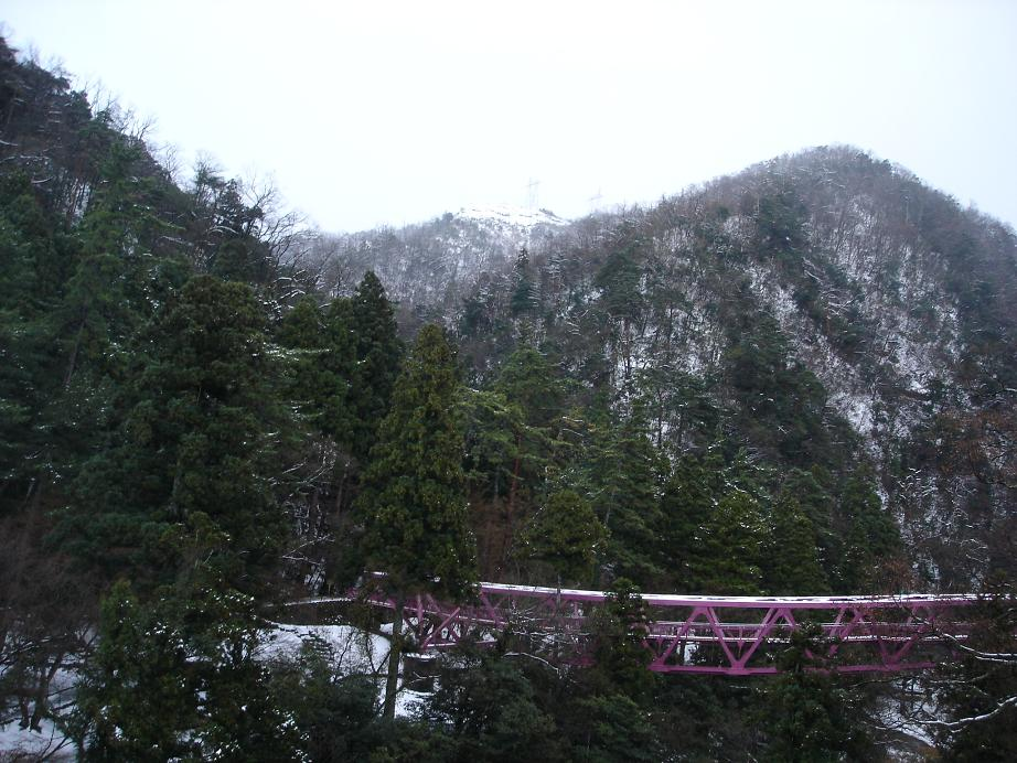 View of the Ayatori-hashi bridge in Yamanaka Onsen